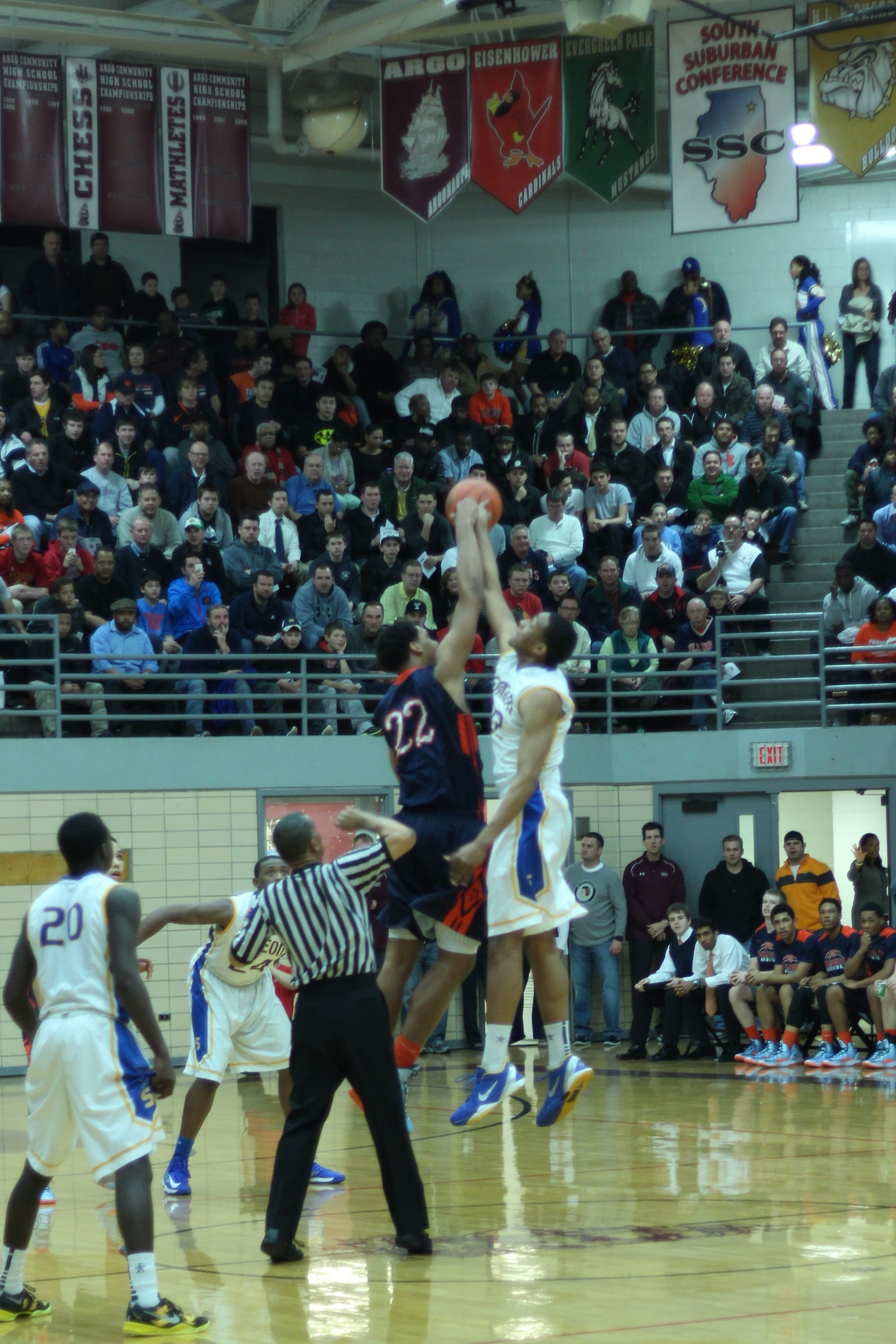 Jabari Parker (white) and Jahlil Okafor (blue) jump ball at 2013 4A Illinois High School Association sectional championship